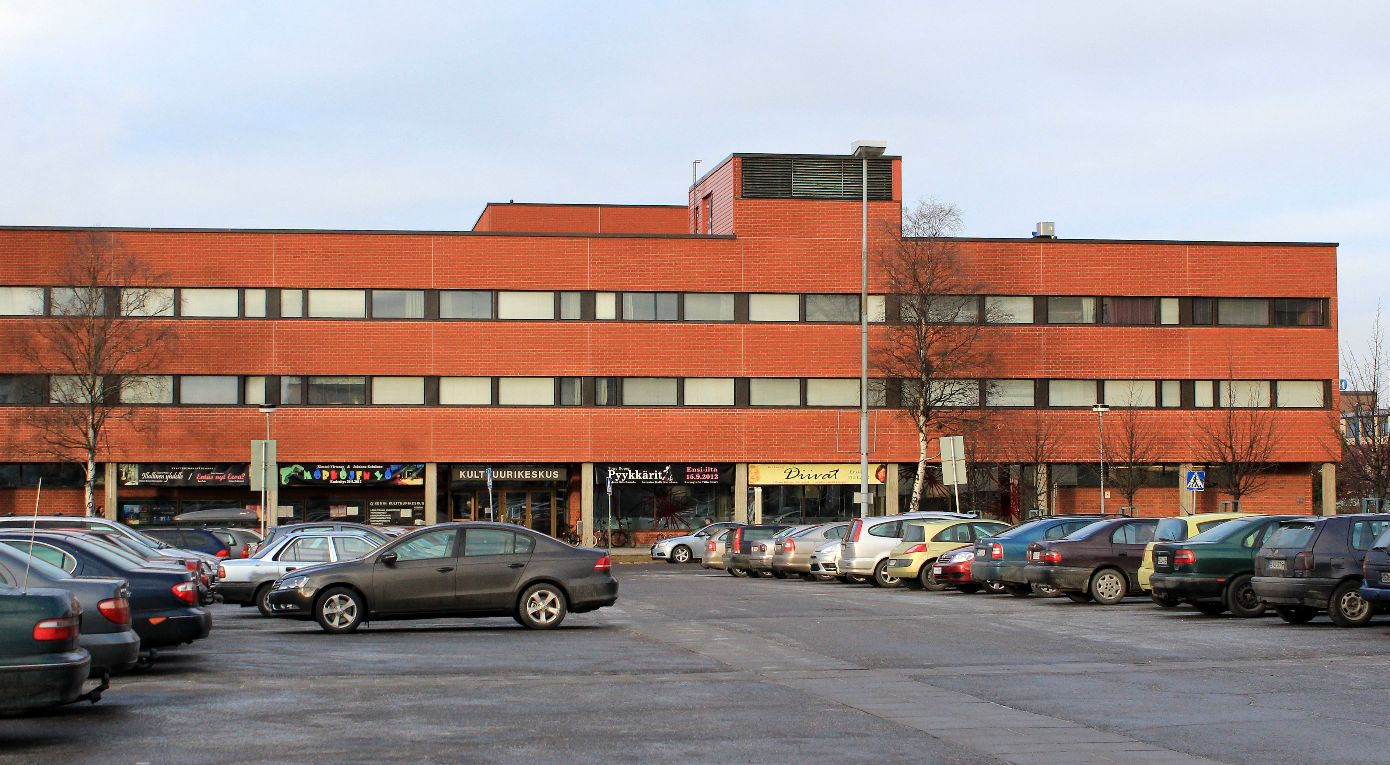 The Cultural Center of Kemi hosts library, theatre, art museum and other cultural facilities of Kemi, Finland.